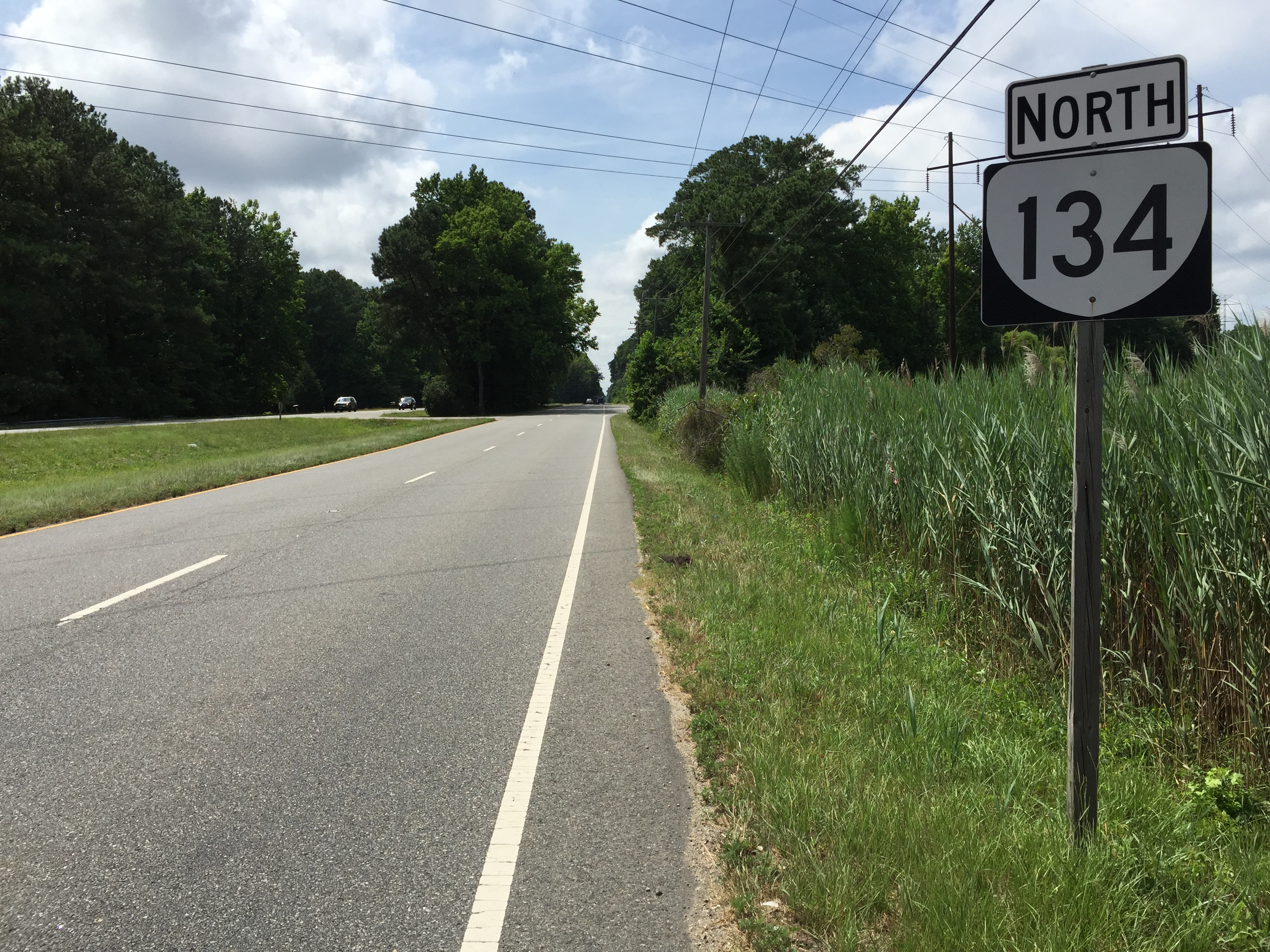 View north along Virginia State Route 134 (Hampton Highway) between the Northwest Branch Back River and Tabb Smith Trail in southeastern York County, Virginia